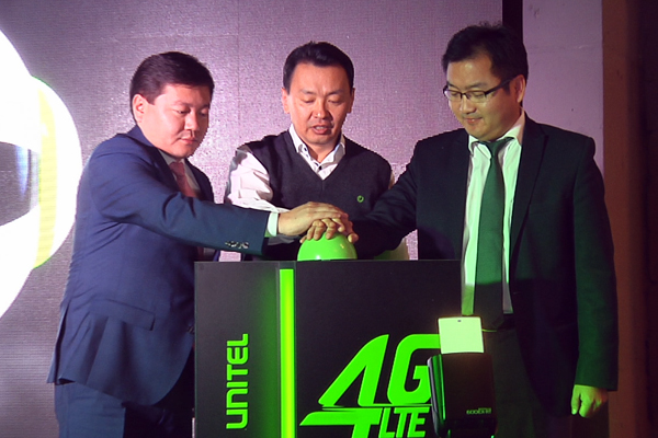 Монгол: Unitel launches 4G nationwide coverage.